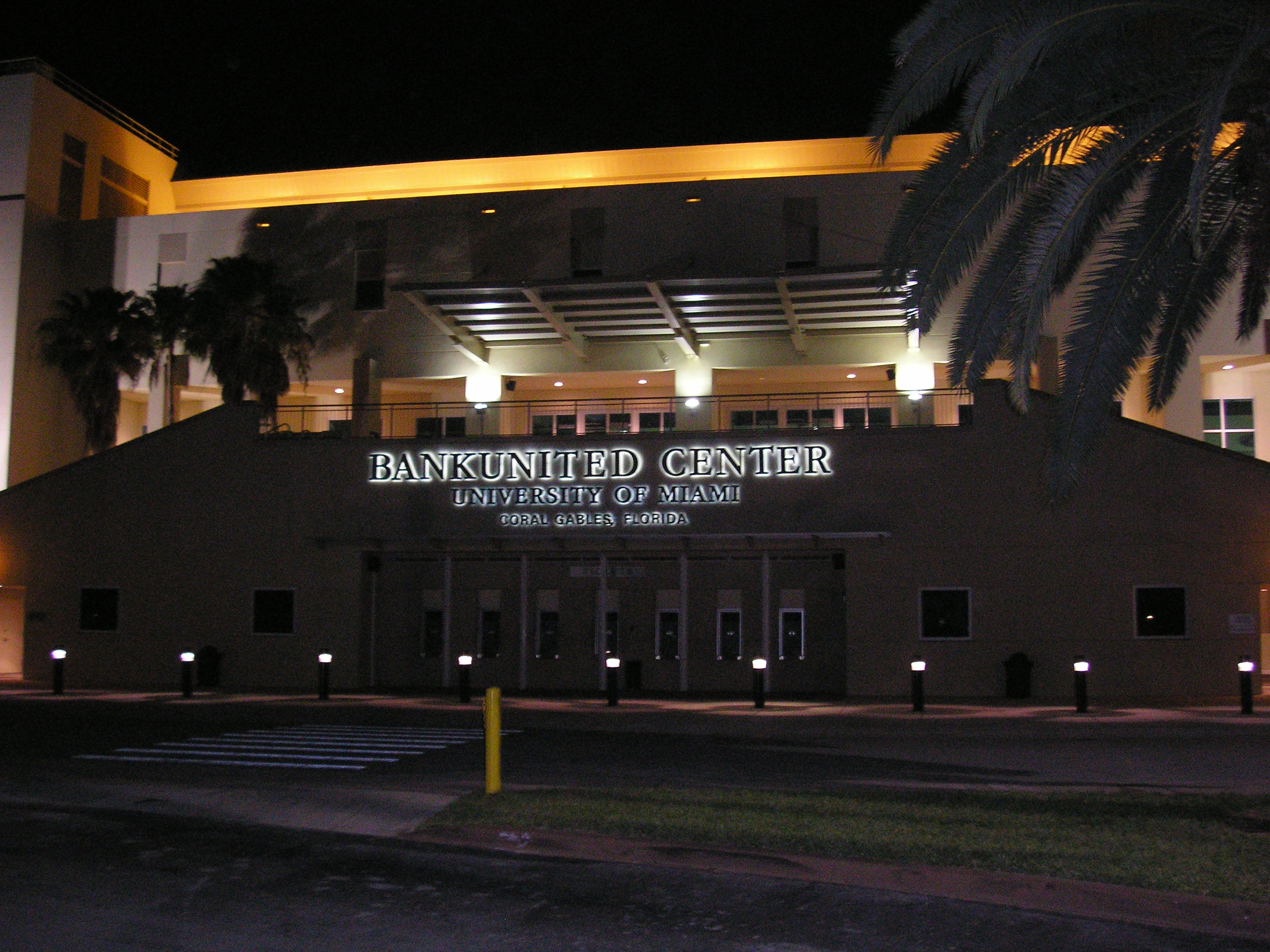 The BankUnited Center on the University of Miami campus at night.